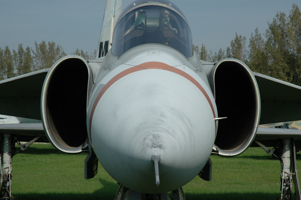 A front view of Saab JA 37 Viggen fighter (displayed at the Museum of Hungarian Air Force, Szolnok)